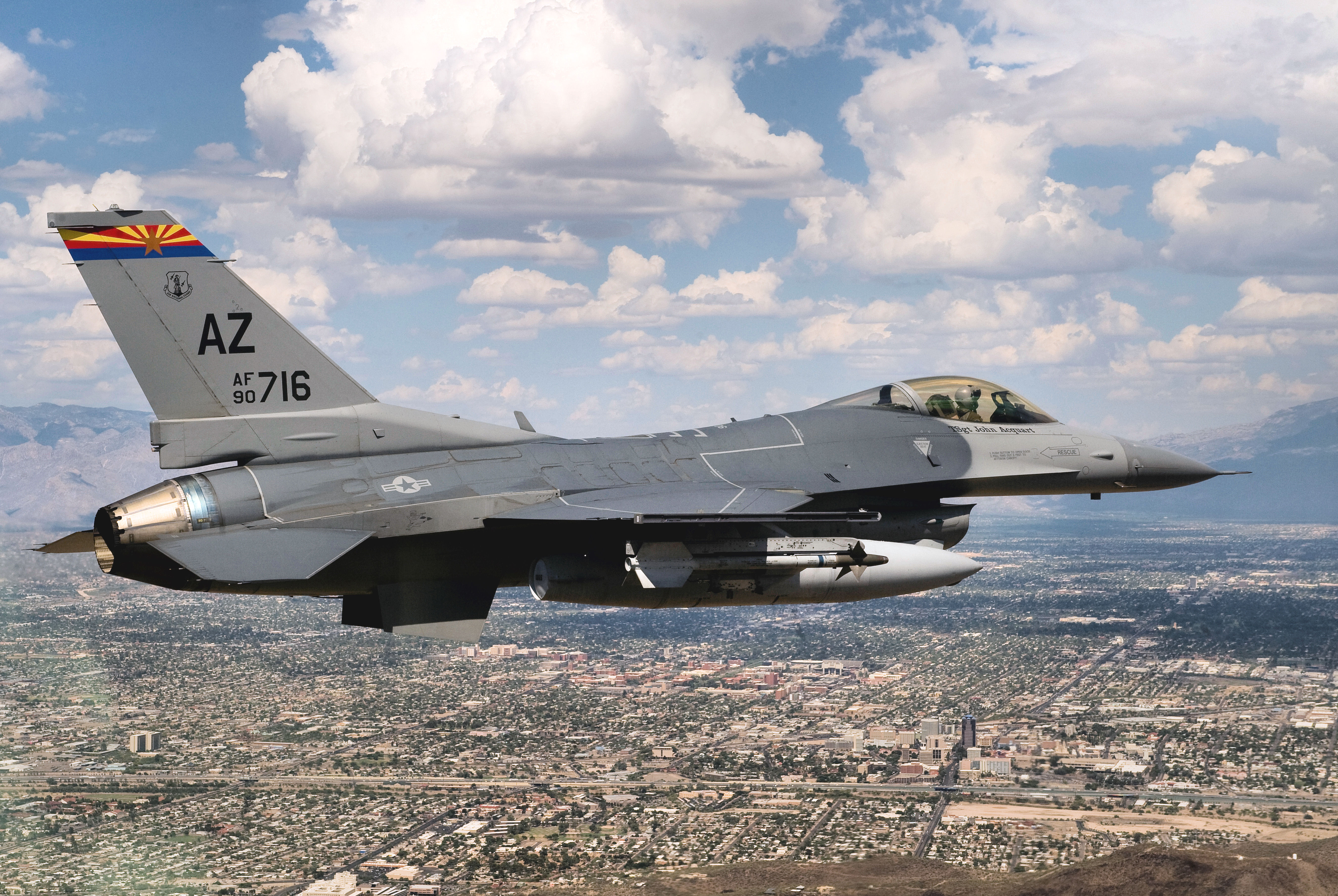 An F-16 Fighting Falcon from the 162nd Fighter Wing, Arizona Air National Guard, flies over Tucson. (U.S. Air Force Photo/Master Sgt. Jack Braden)